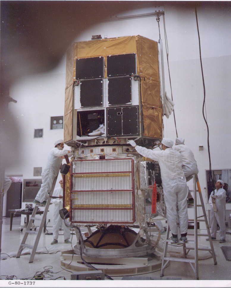 Assembly of the Solar Maximum Mission at Kennedy Space Center on 22 January 1980